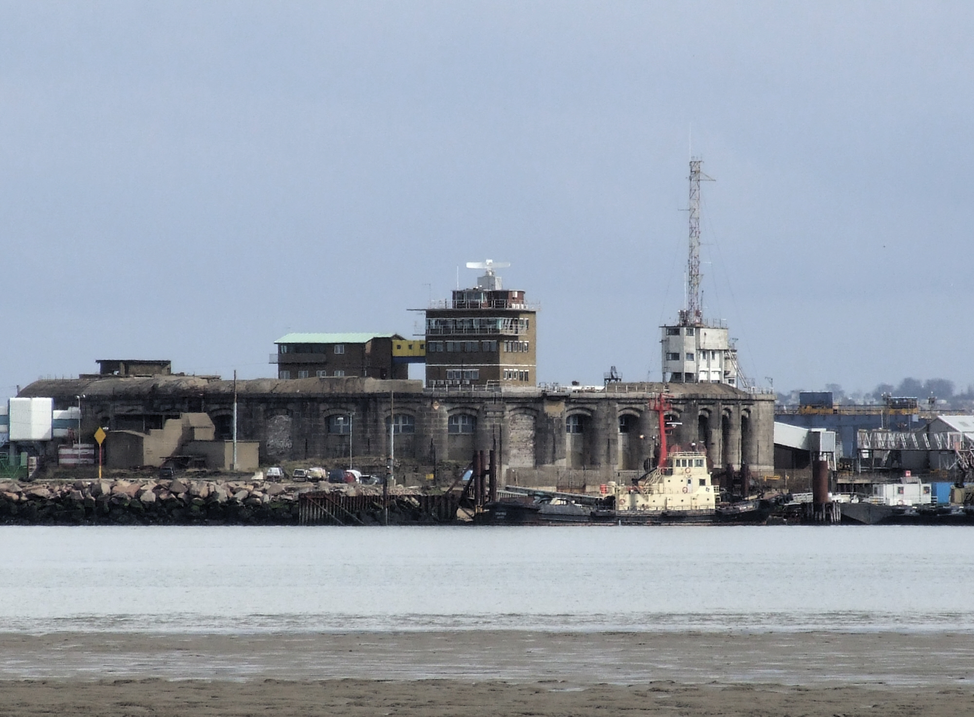 Grain, Kent in the civil parish of Isle of Grain, is a village on the Hoo Peninsula. Garrison point, Sheerness from Grain